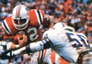 New England Patriots' running back Craig James (left) rushing the ball against Miami Dolphins' linebacker Jackie Shipp (right) in the 1985 AFC Championship game on January 12, 1986.